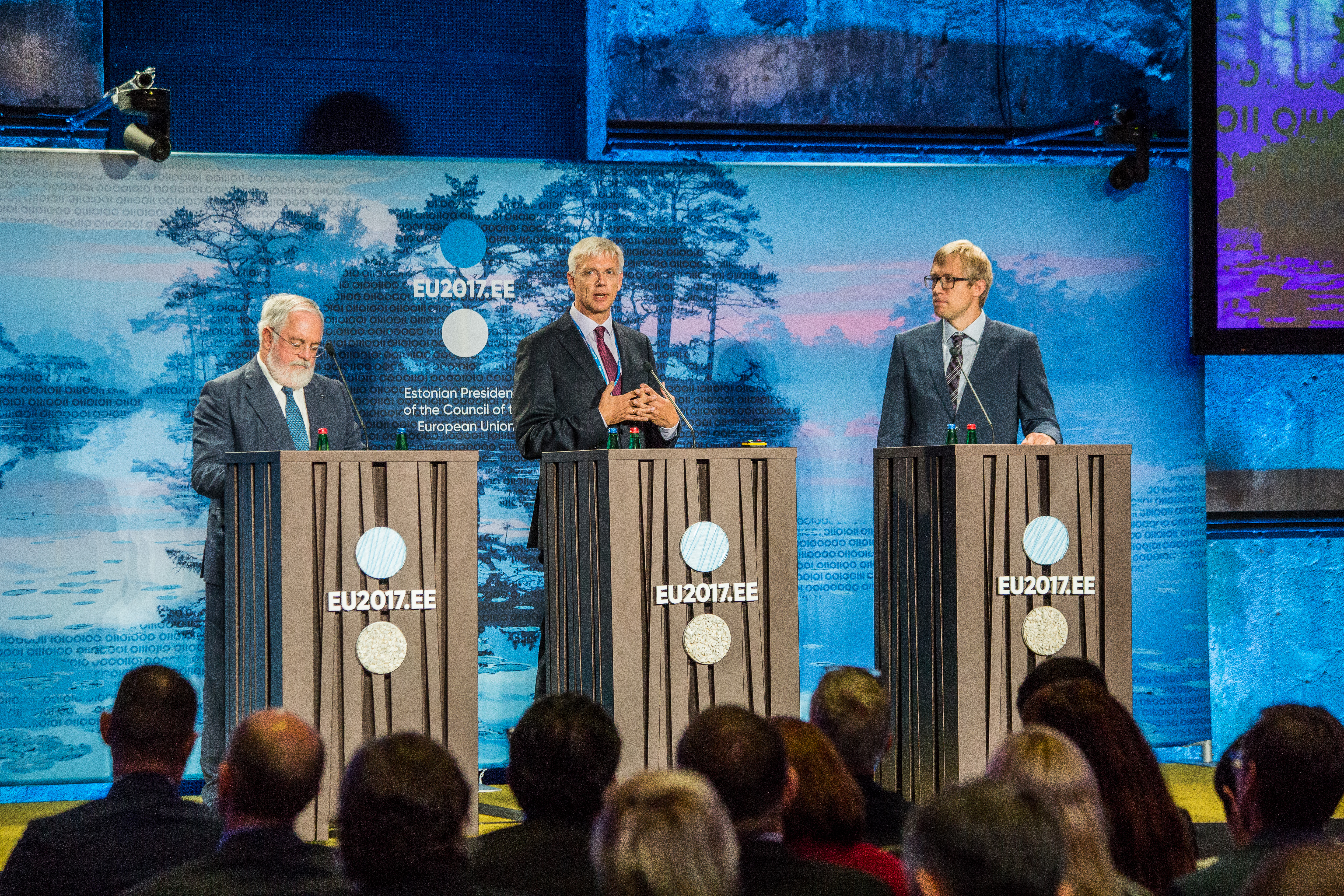 (l-r) Miguel Arias Cañete, Commissioner for Climate Action and Energy, European Commission; Krišjānis Kariņš, Member of Committee on Industry, Research and Energy (ITRE), European Parliament; Johannes Tralla Photo: Aron Urb (EU2017EE)